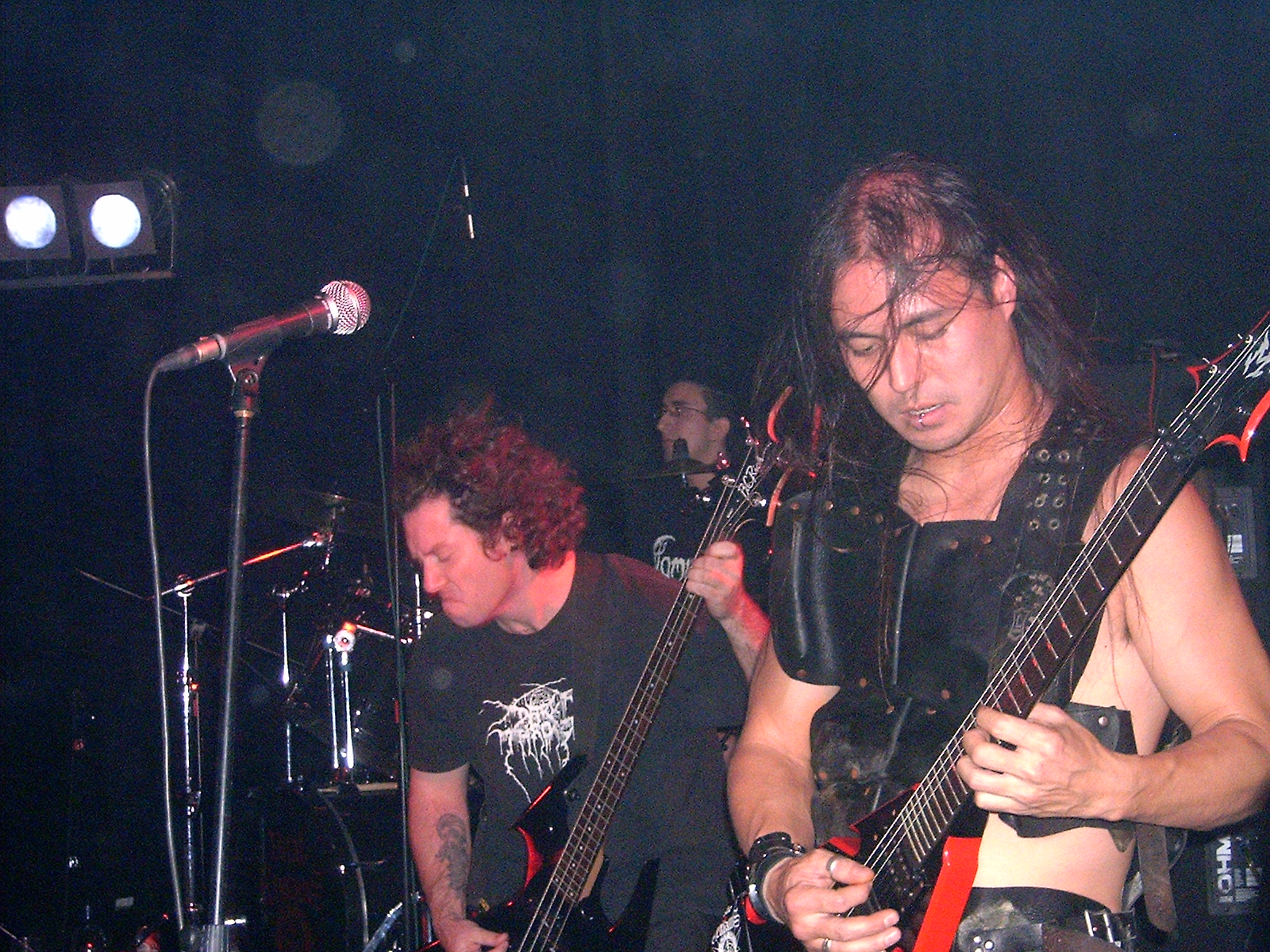 Vital Remains - death metal band